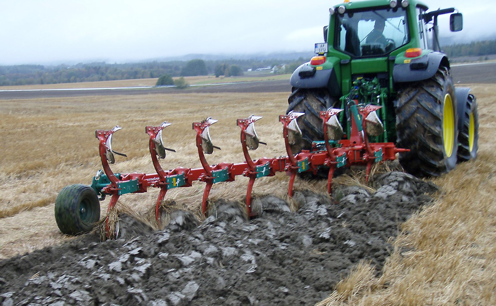 Plowing with a John Deere tractor and a Kverneland plough